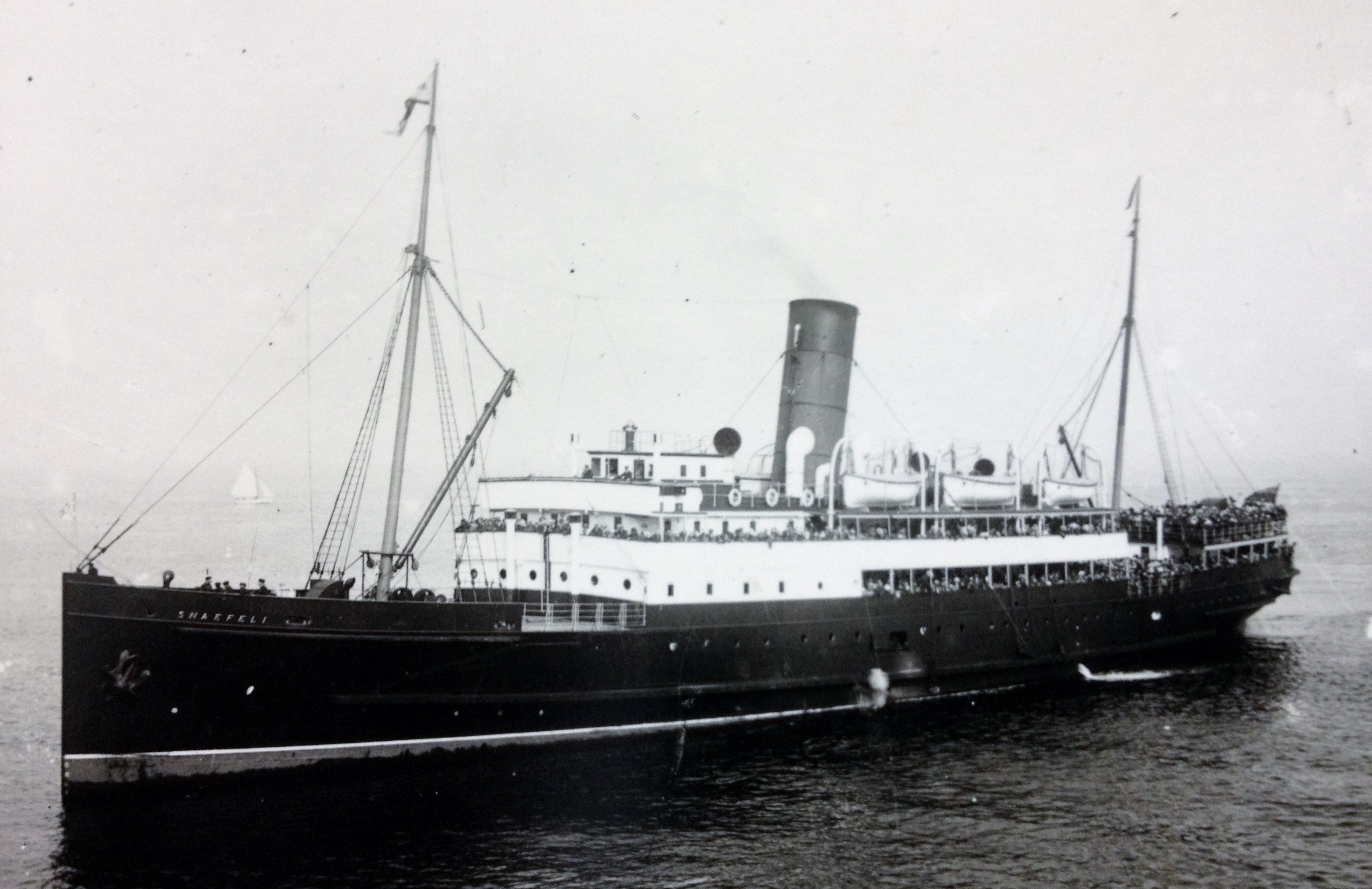 RMS Snaefell pictured approaching Douglas.